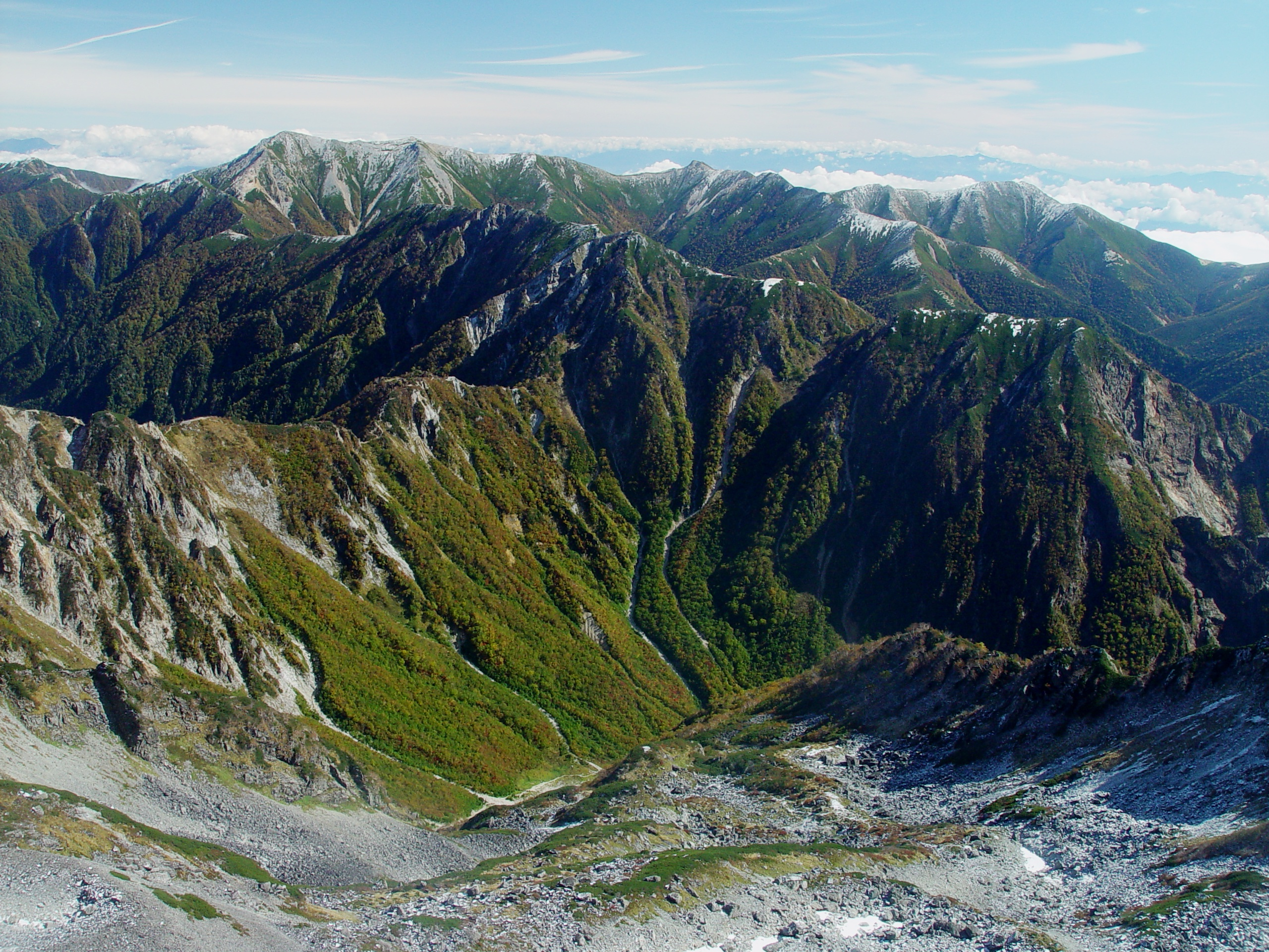 Mount Otensho seen from Mount Minami in Hida Mountains, Japan.